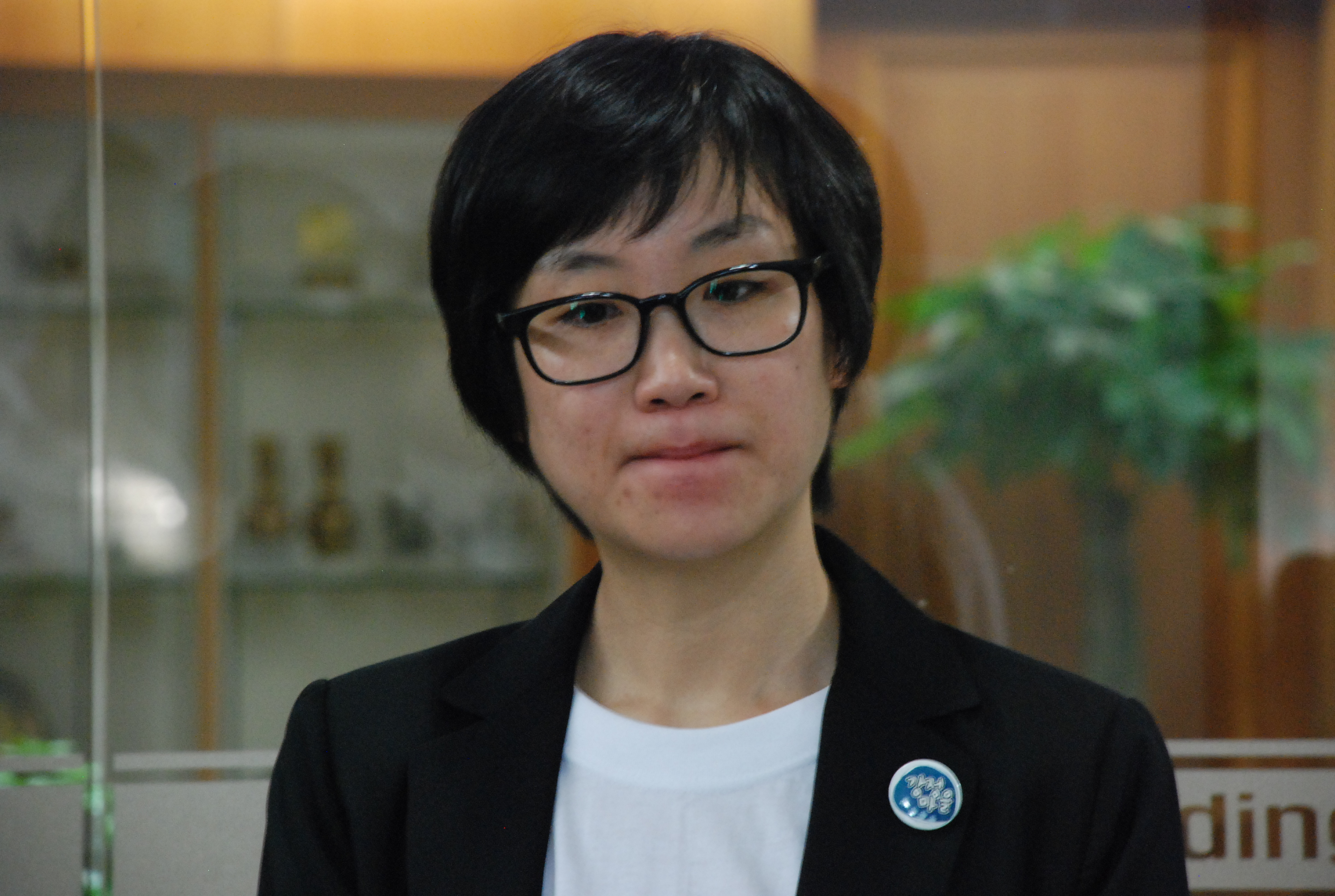 Jang hana in 2012.